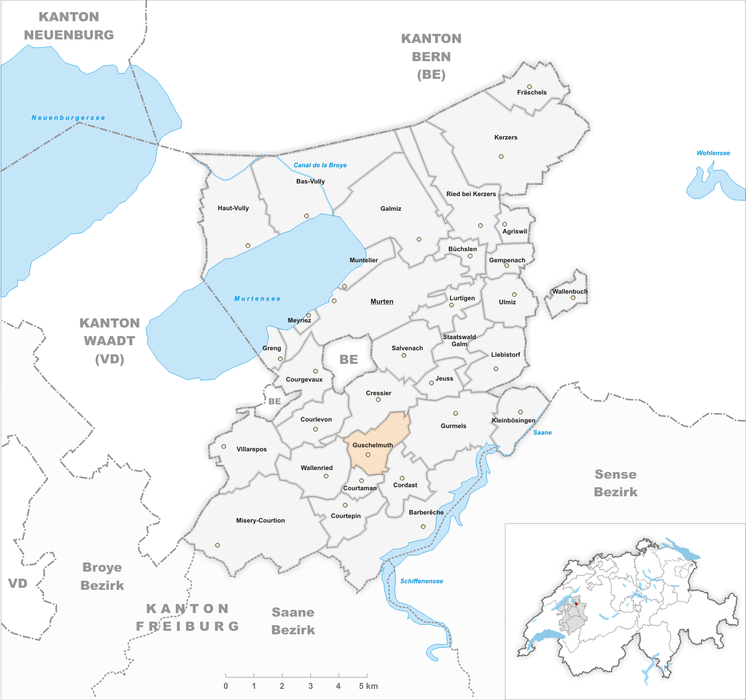 Municipality Guschelmuth Artist: Tschubby